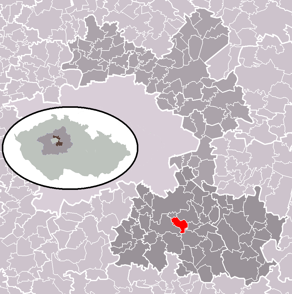 Location of Všestary municipality within Prague-East District and administrative area of Říčany as a Municipality with Extended Competence.